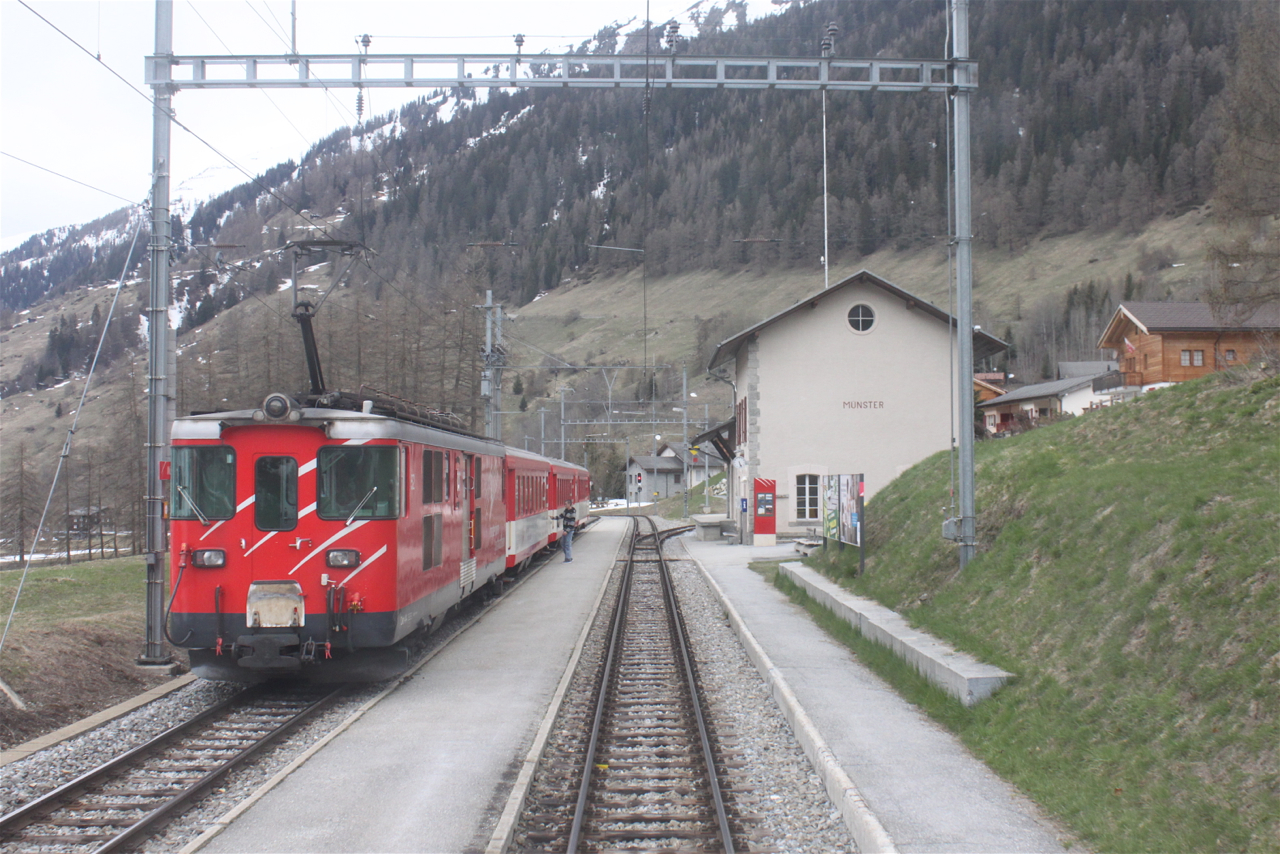 Münster VS train station (and Deh 4/4 52).